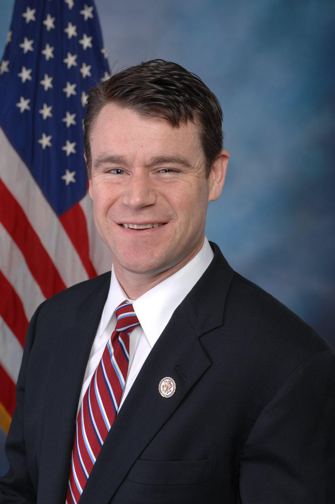 Official portrait of US Rep. Todd Young.